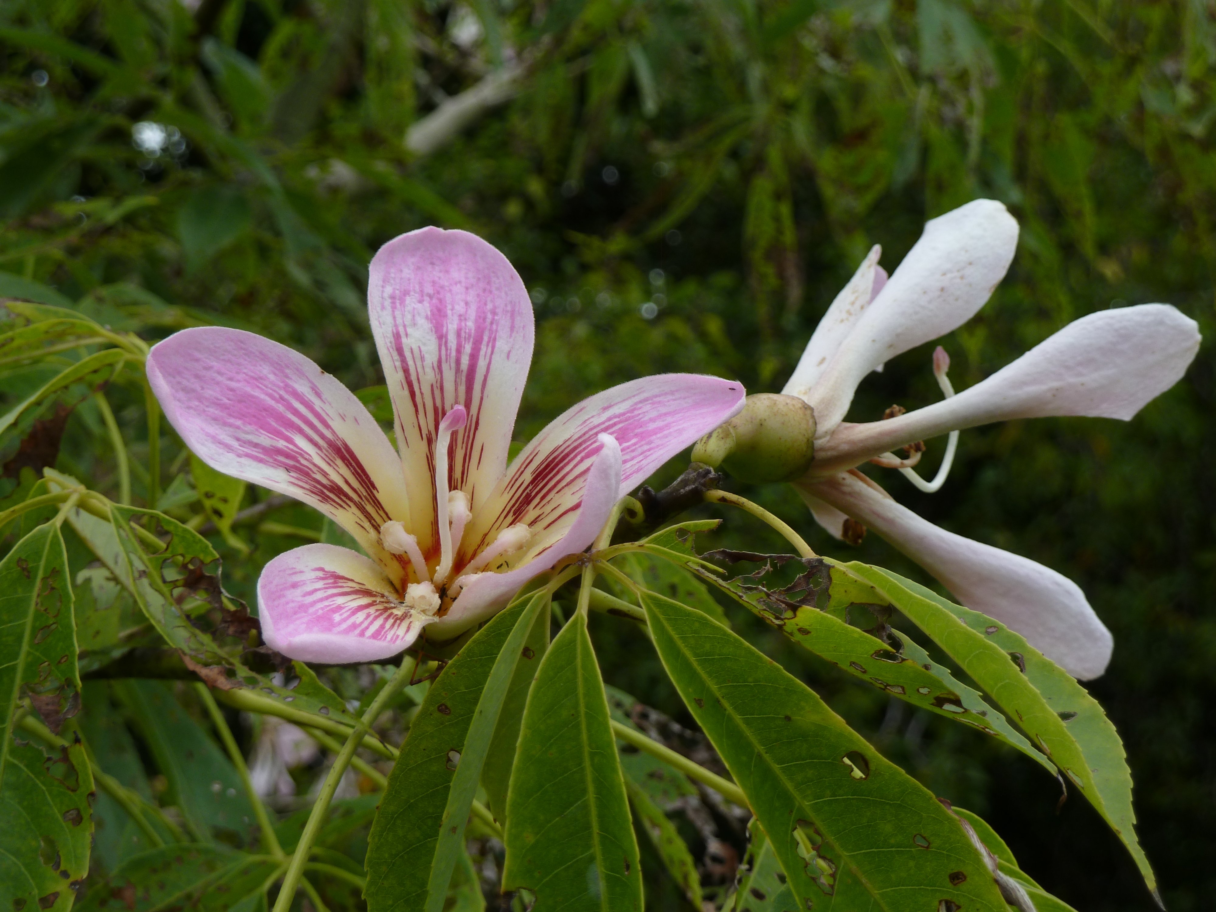 Ceiba insignis at the McBryde NTBG on Kauai Malvaceae